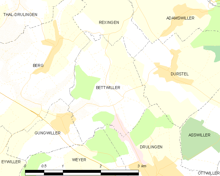 Map of French municipality